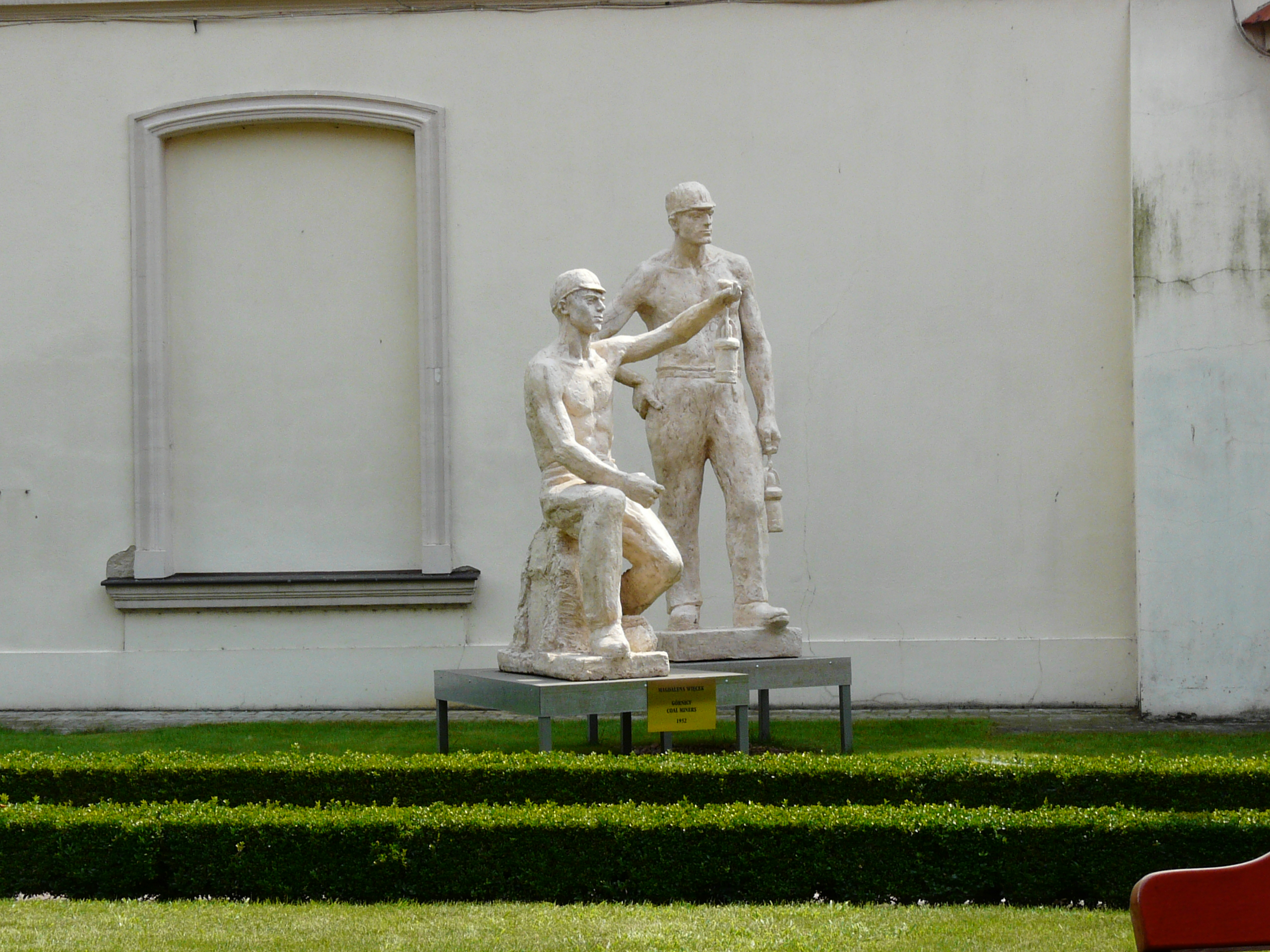 Sculpture at the Museum of Socialist Realism in Kozłówka